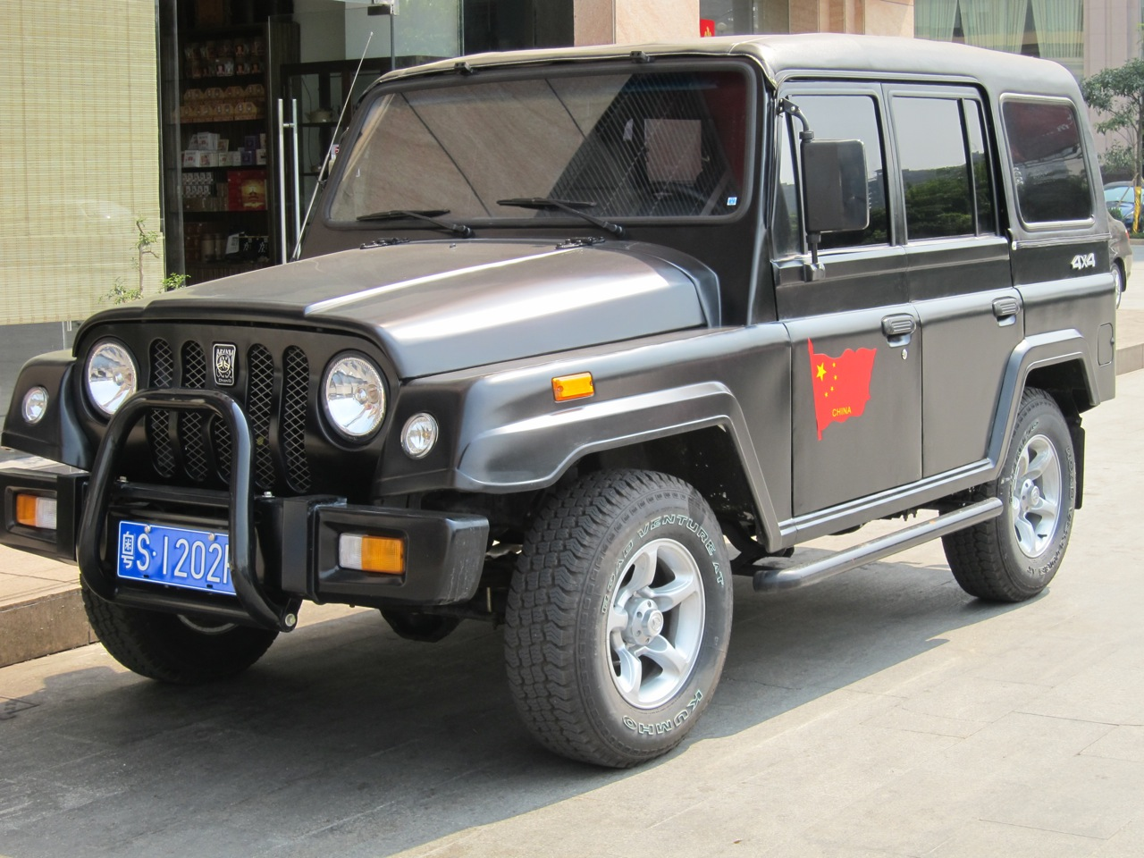 China BeJing Jeep: LieYing ZhanQi BJ2023CHD5 front quarter view [Land Rover Defender Jeep copy thingy]